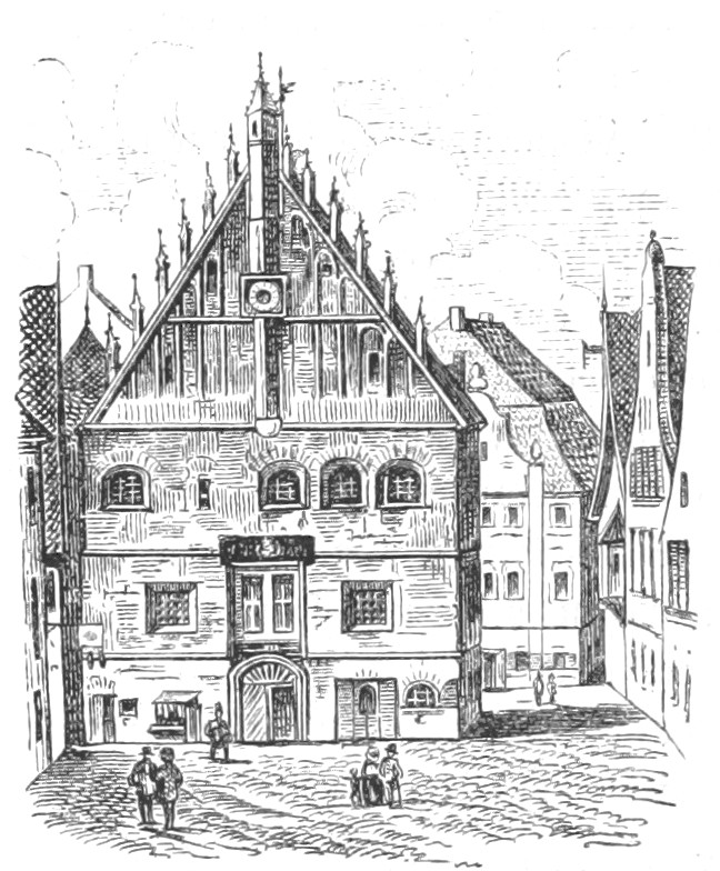 Image extracted from page 816 of above (page number relates to the digital version and can differ from the pagination within the book). Original held and digitised by the British Library. Note: The colours, contrast and appearance of these illustrations are unlikely to be true to life. They are derived from scanned images that have been enhanced for machine interpretation and have been altered from their originals.